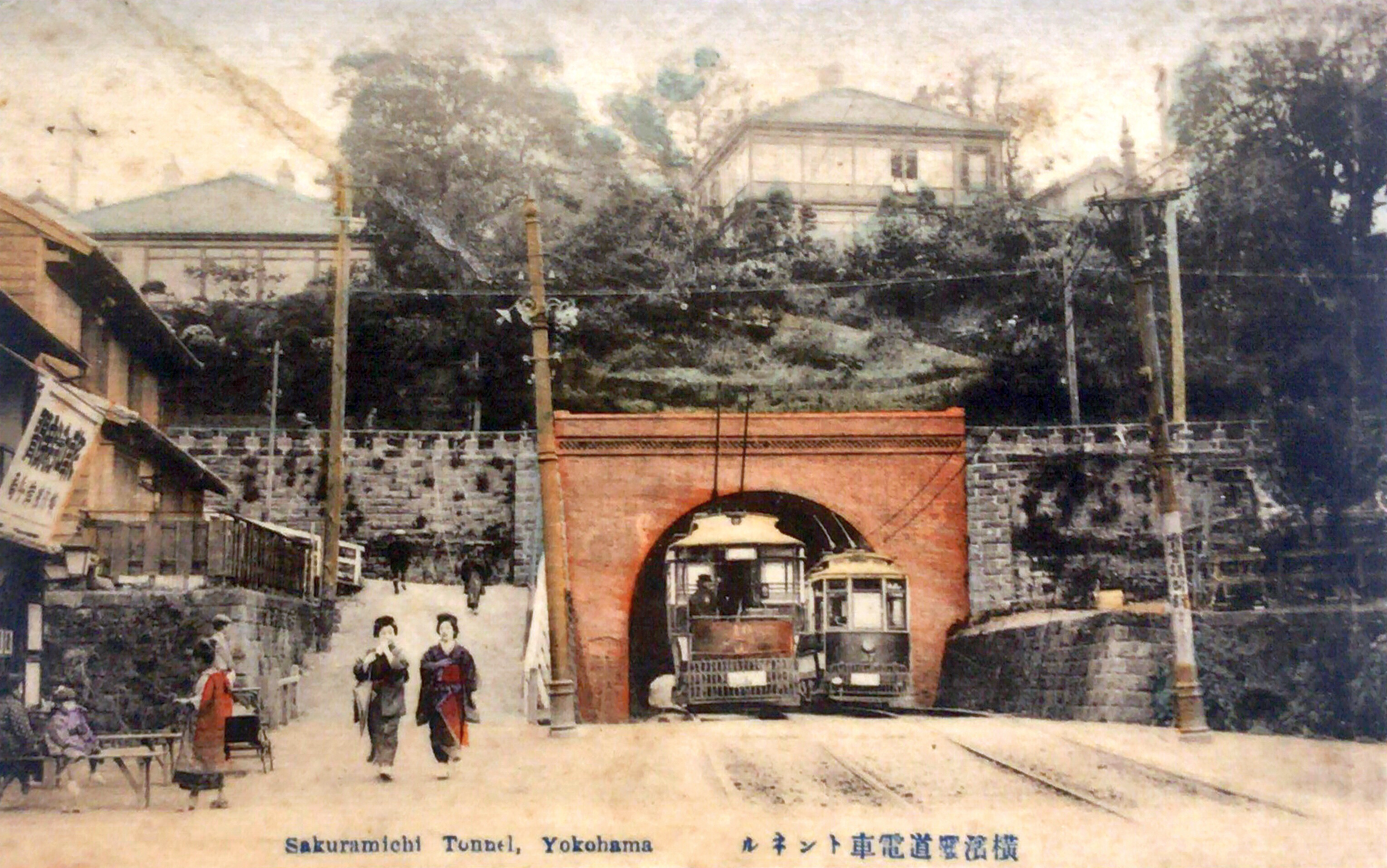 Sakuramichi Tunnel of Yokohama Erectric Transportation.